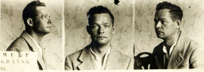 Feliks Selmanowicz (1904-1946) – Second Lieutnant of Polish 5th Wilno Home Army Brigade. Partisan of anti-communist underground after WW II